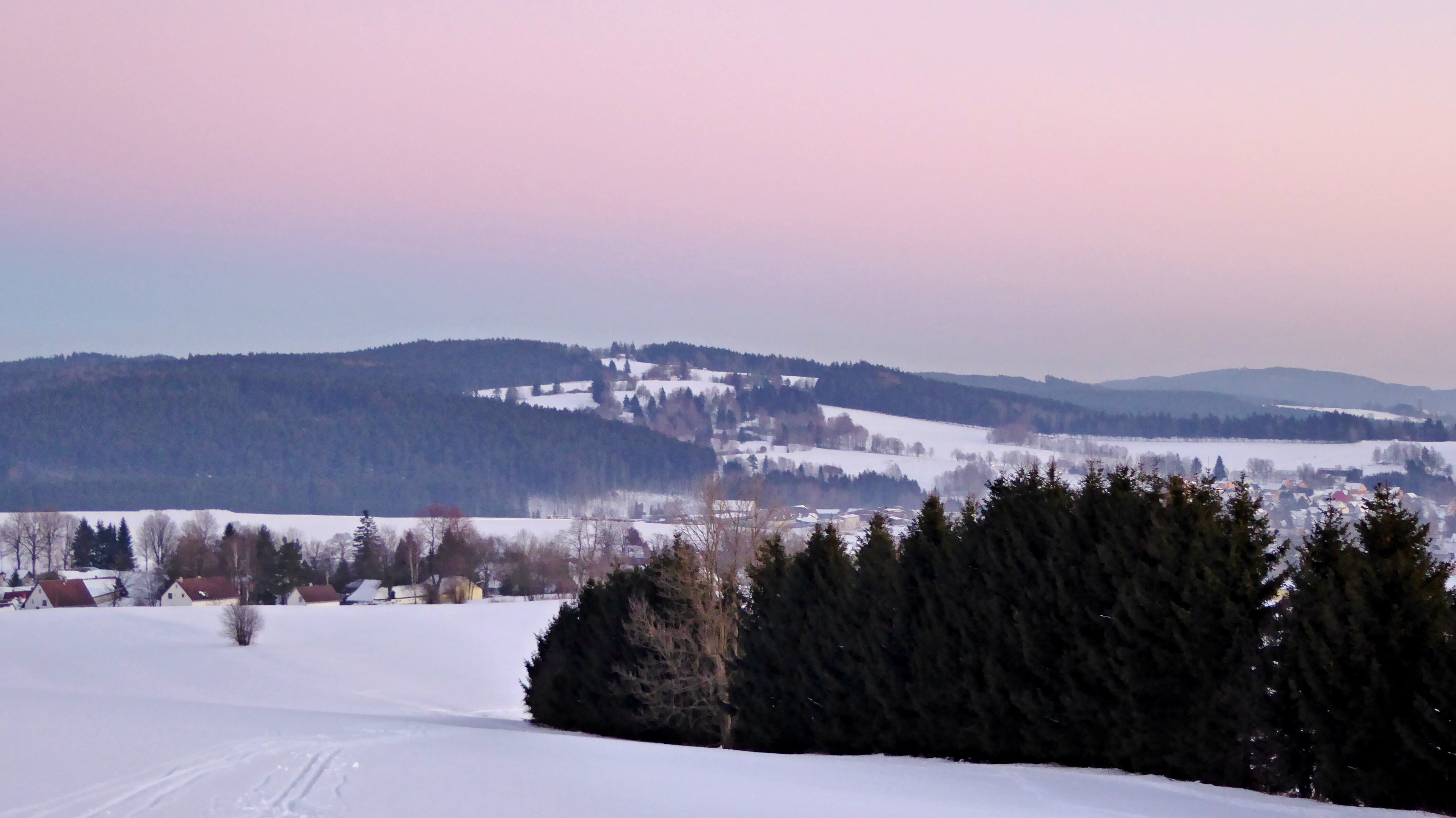 The forested summit (slightly to the left of the center of the photo) with the geographical name Karlštejn and with a altitude of 783.4 m is the highest in the geomorphologic district "Borovský" Forest, within the regional breakdown of the georelief of Czechia. From an administrative point of view, it lies on the cadastral territory of the village Svratouch in the Chrudim district belonging to the Pardubice Region. View from the top "U oběšeného" ("Kameničská" Highlands). Photo location: Czechia, Pardubice Region, villages Svratouch.